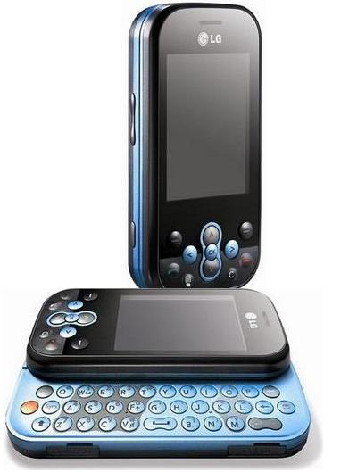 LG KS360 with slide up on